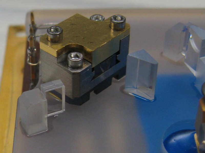 The Lightwave Electronics model 142 was a single-frequency green laser produced in the late 1990's and early 2000's. This photo shows the technique used to fix the optics in that laser. The optic is mounted to a glass block, which is itself mounted to the platform. UV-curing adhesive provides the bonds.